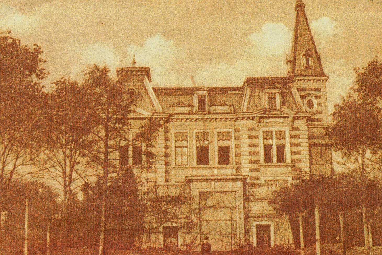 Huetteldorf landmark: Reconvalescentenheim, later hostel for (unwed) mothers. Vienna, Austria. Rosentalgasse 11-13